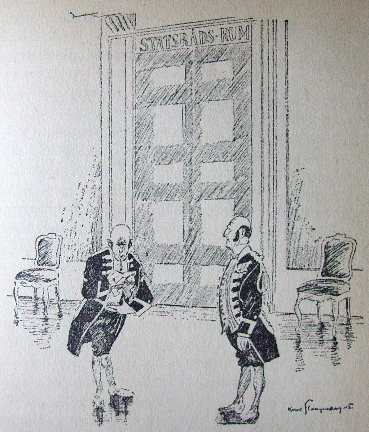 Picture of "Peterssönernas ministär" in Puck